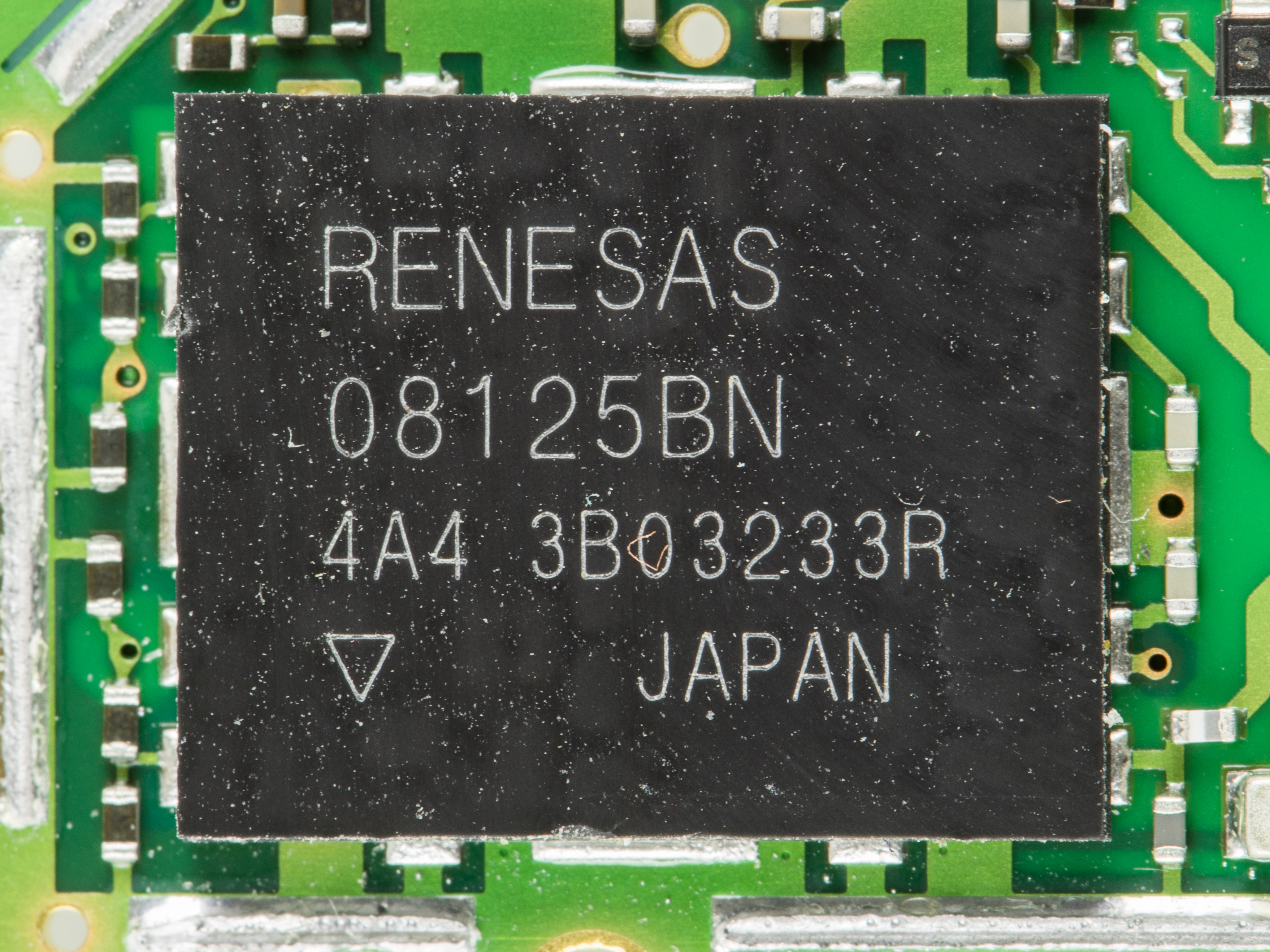 Nokia 3410 - motherboard - Renesas 08125BN